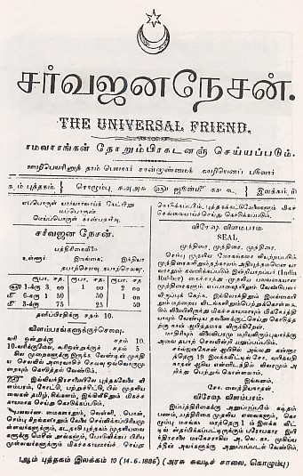 cover of Sarvajana Nesan, late 1880s